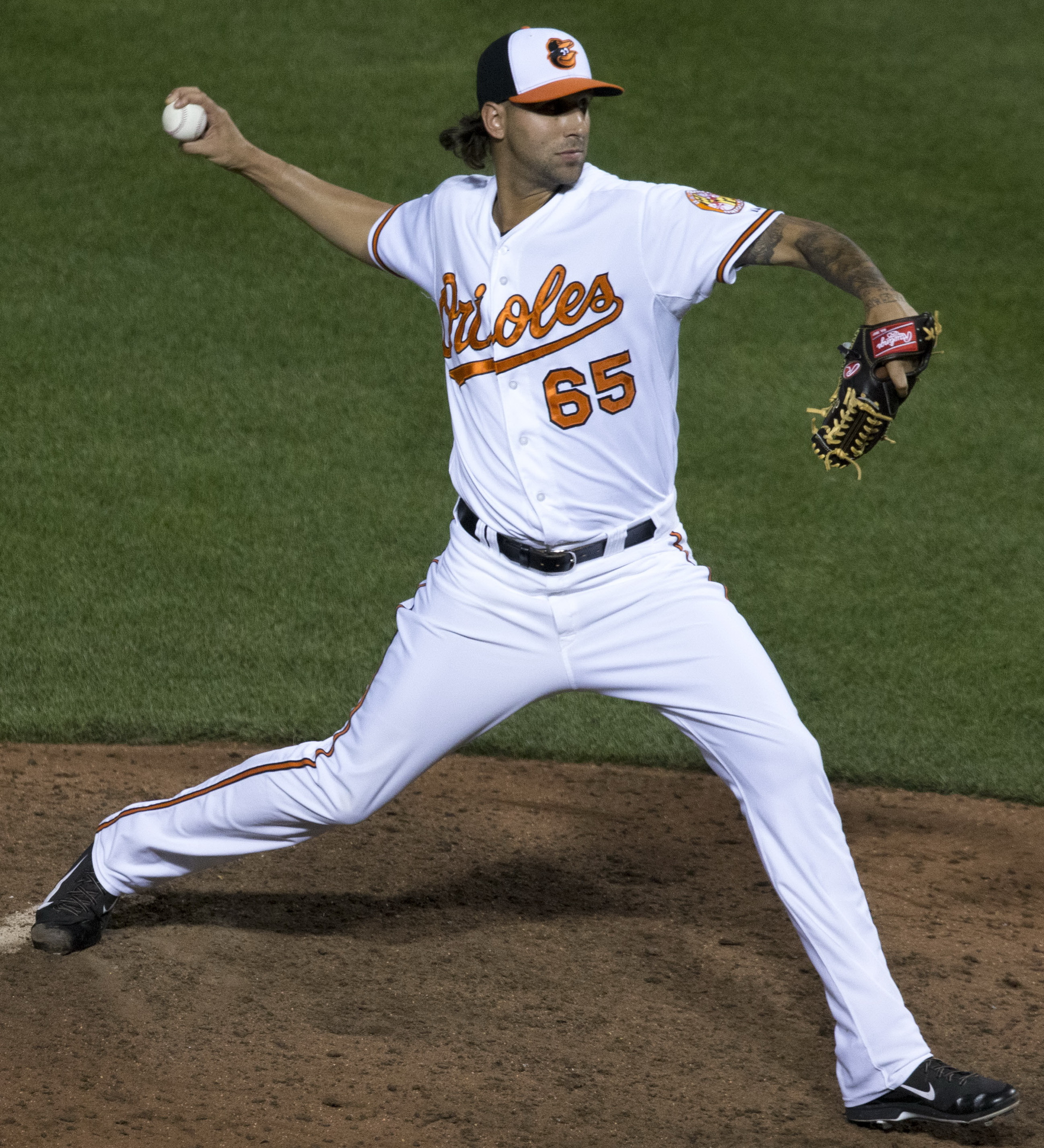 Chaz Roe